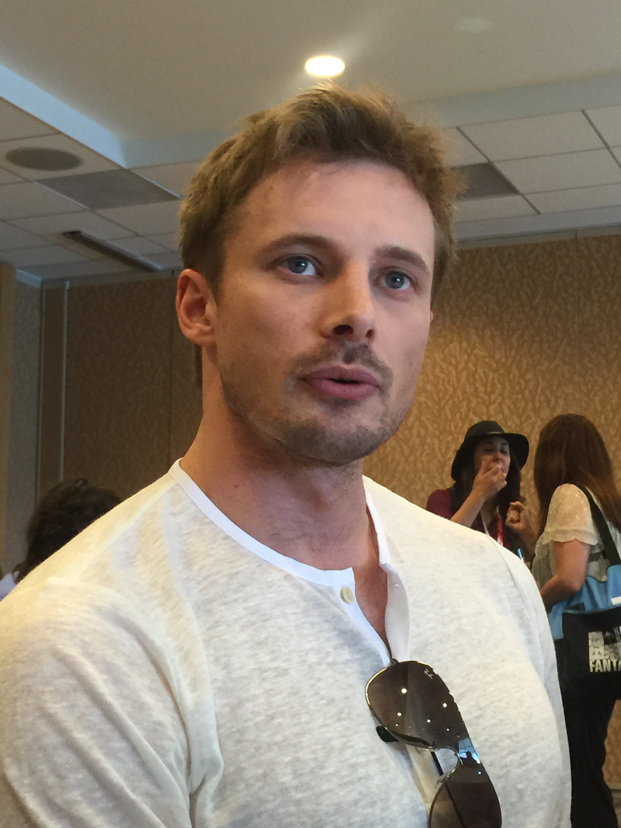 Bradley James at 2015 Comic-Con International